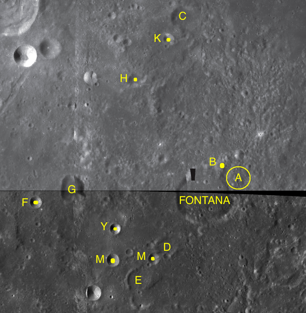 Parts of the charts LAC-74, LAC-92